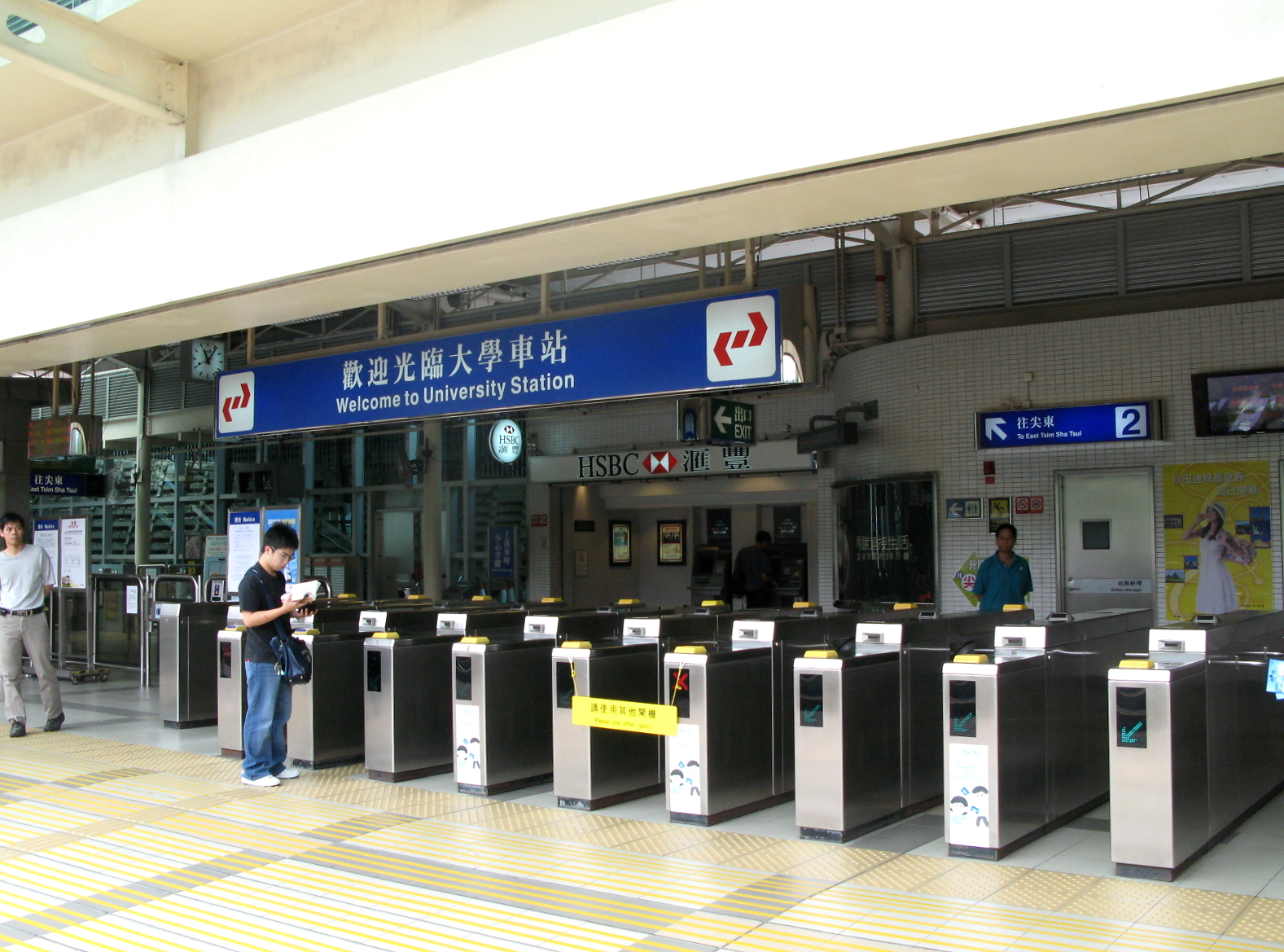 HK KCR East Rail University Station